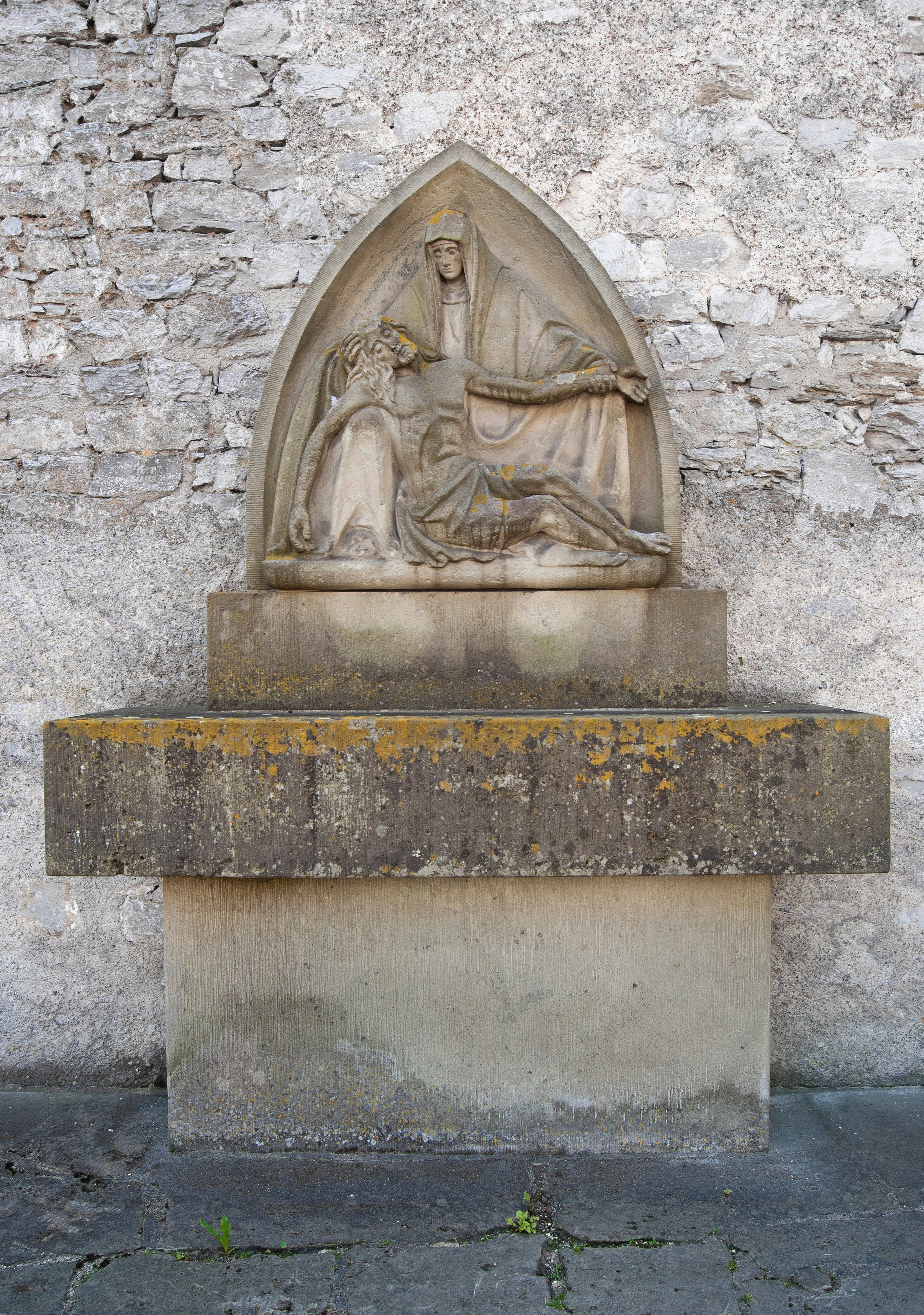 Brilon (North Rhine-Westphalia, Germany) – city gate Derker Tor – pietà This image shows a heritage building in Germany, located in the North Rhine-Westphalian city Brilon (no. ?). This photograph was taken with a Nikon D3000